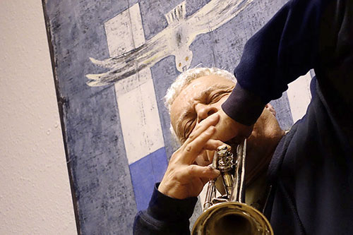 Herb Robertson in Aarhus (Denmark) 2015